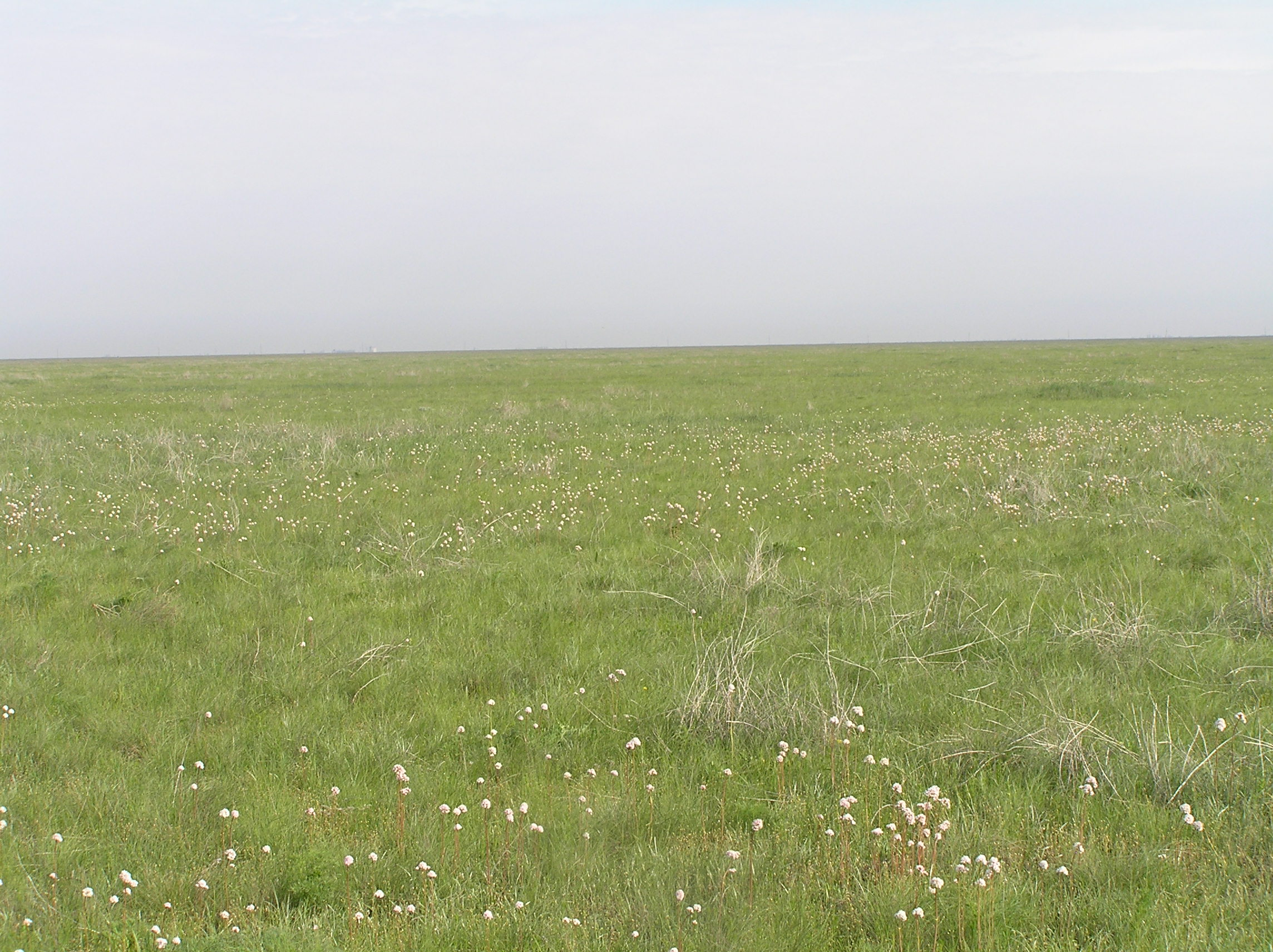 Askania Nova, Ukrajina